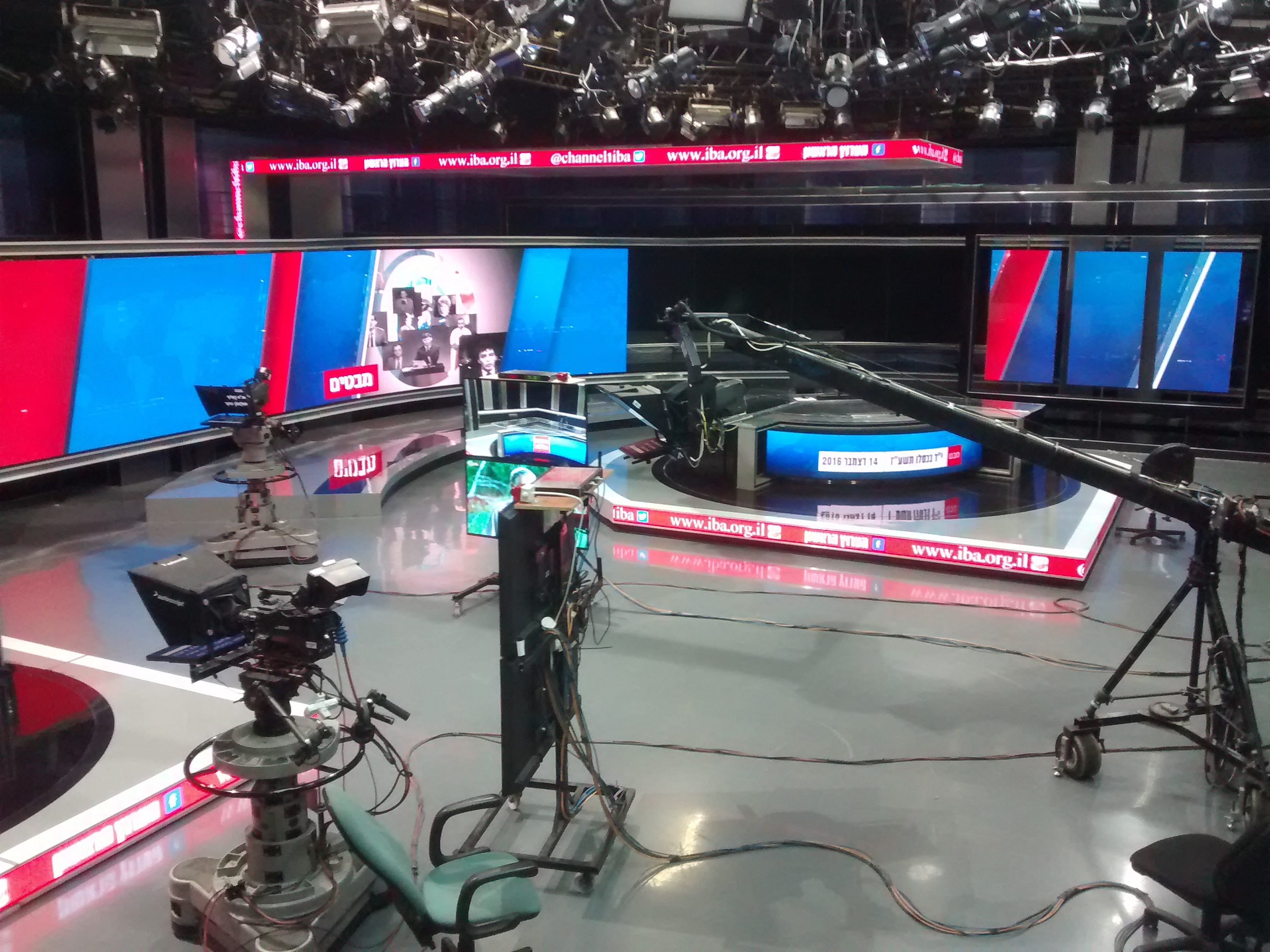 Israel Channel 1 news studio in Jerusalem 2016, Mabat LaHadashot